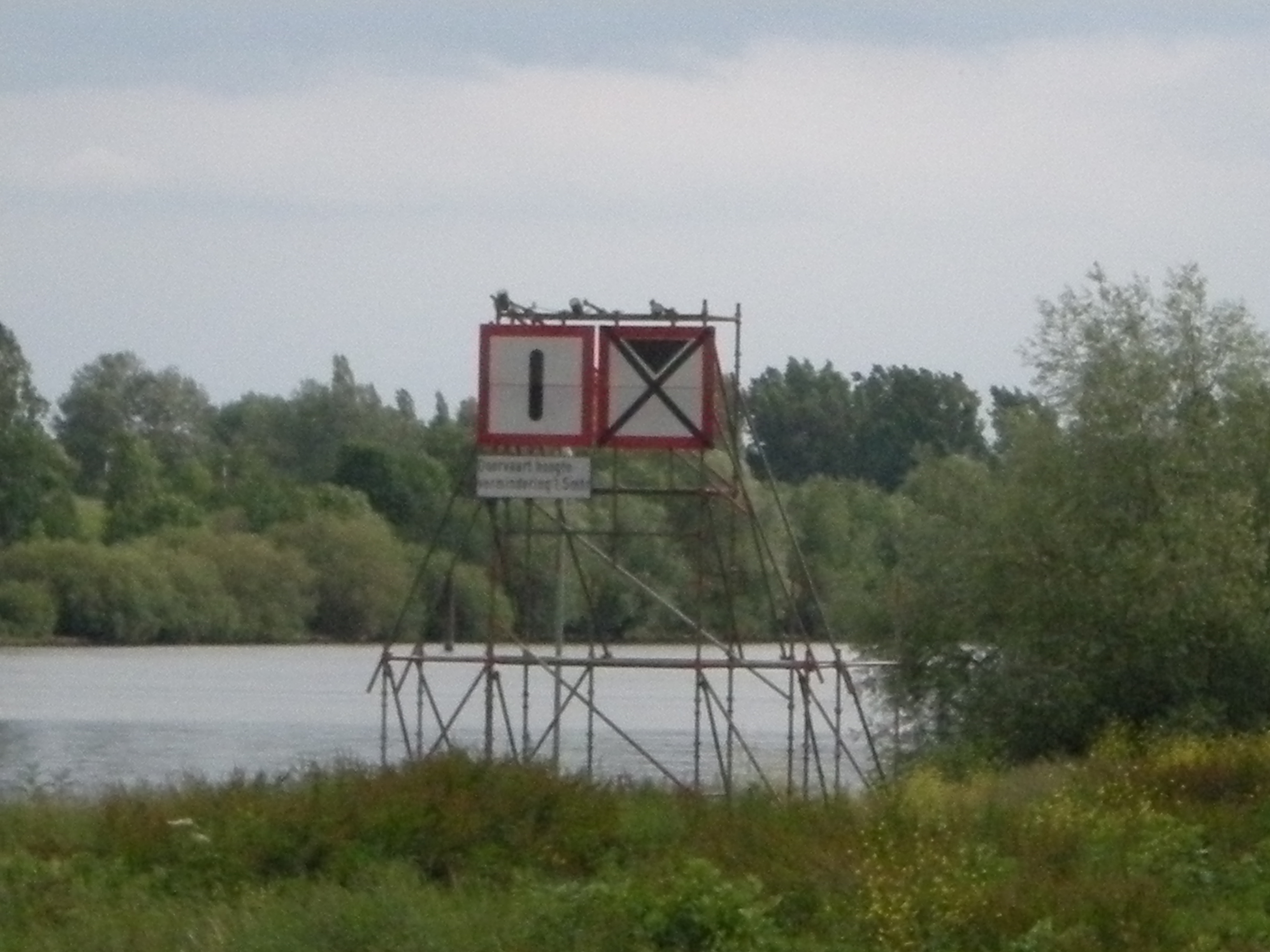 river sign